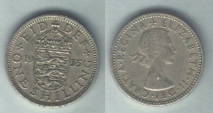 UK - 1 shilling - 1955 scan by --Paginazero 19:28, 4 Feb 2005 (UTC) changed filename (was "UK 1 scellino 1935", wrong)